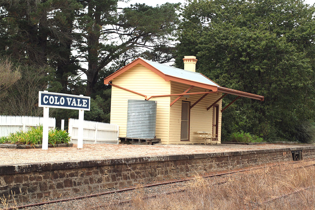 Colo Vale Railway Station. NSW Australia. Disused, but restored by volunteer labour.